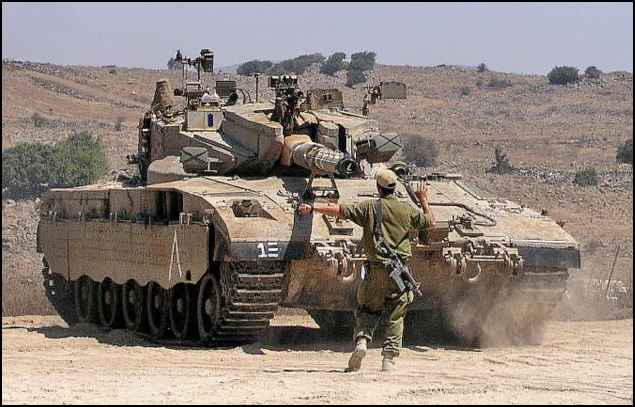 Merkava Mk2 tank